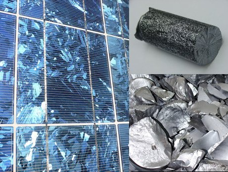 Polysilicon, image compilation. Left side: solar cell made of multicrystalline silicon. Right side: polysilicon rod (top) and chunks (bottom).